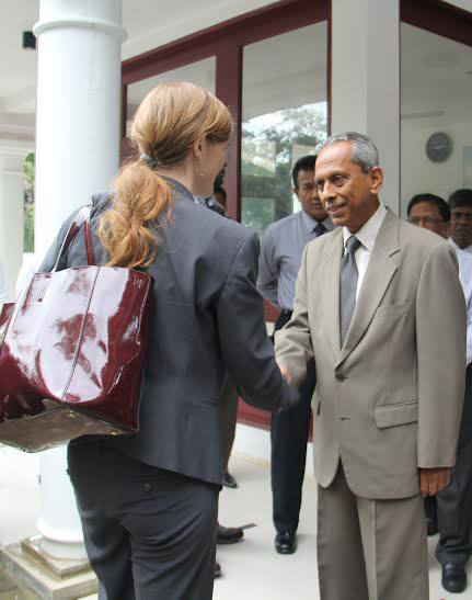 U.S. Ambassador to the U.N. Samantha Power meets Northern Province Governor H. M. G. S. Palihakkara at the Governor’s Secretariat in Chundikuli, Jaffna, Sri Lanka on 22 November 2015. Cropped from original